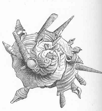 Xenophora (Phorus) pallidula Reeve. A mollusc which escapess detection by covering itself with dead shells of other species Subject: Xenophora Tag: Mollusks